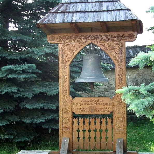 The Matthias Bell in the garden of the Sancraiu Church.